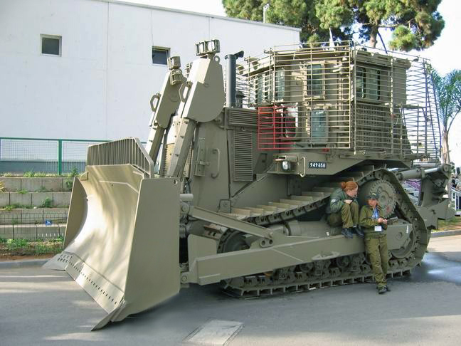 An armored Caterpillar D9R bulldozer of the Israeli Defense Forces, with add-on slat armor against ATGM & RPG rockets. Photographed by FiReBall from Fresh's Military & Security Forum, in LIC 2005 exhibition in Tel Aviv, Israel. MathKnight